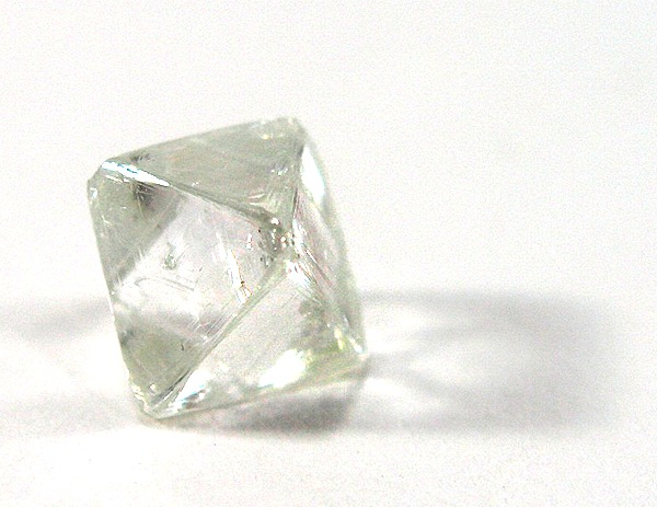 Diamond Locality: South Africa (Locality at ) A truly exquisite, super sharp, octahedral crystal of superior quality for a specimen. It is certainly facetable, too. 1.31 carats: 7 x 6 x 6 mm